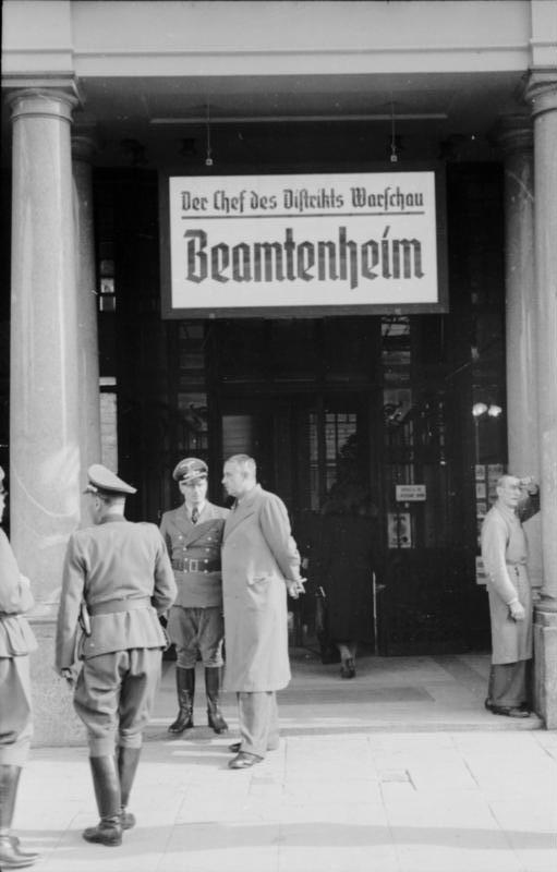 Warsaw during World War II: Hotel Bristol in Warsaw